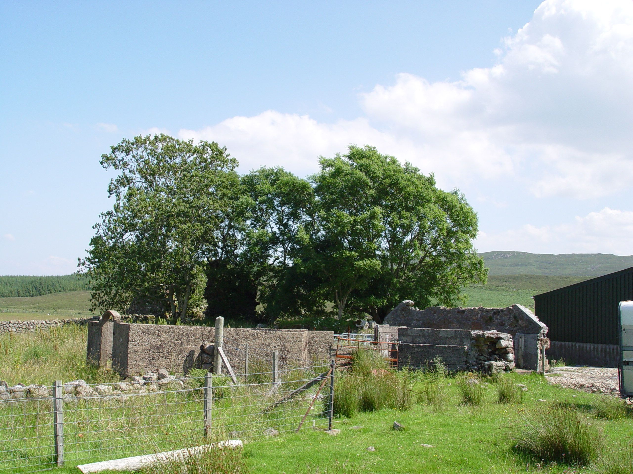 Ruins of Corriechatachan, Isle Skye, Scotland. The Gaelic "Corriechatachan" translates into English as "The corry of the cat lairs". It was the seat of the Chief of the MacKinnon Clan during the mid 18th century. It was described by Boswell and Johnson during their travels in the Scottish Highlands during the 18th century as a two story house with a fine library. The house was abandoned by the MacKinnons around 1790 the present structure is incorporated into a sheep fank.